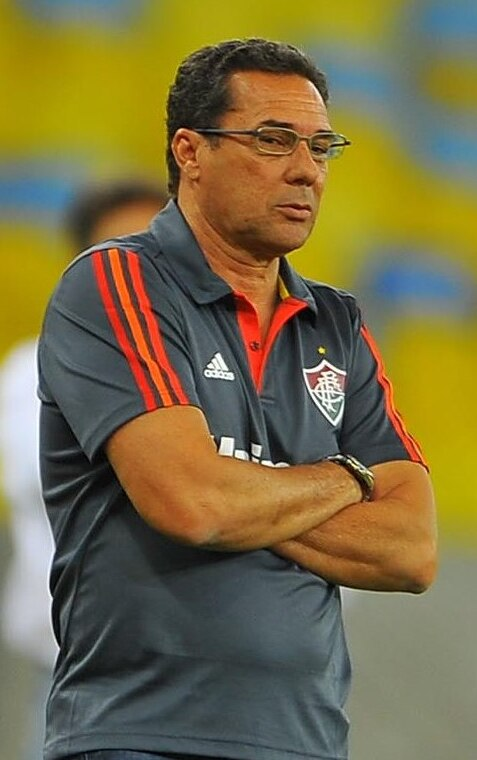 Vanderlei Luxemburgo da Silva (born 10 May 1952, in Nova Iguaçu, Rio de Janeiro state), better known as Vanderlei Luxemburgo and often known as Wanderley Luxemburgo, is a Brazilian football manager and former football player. He holds the distinction of being the most successful manager in the history of Brazil's Série A, with five league titles.